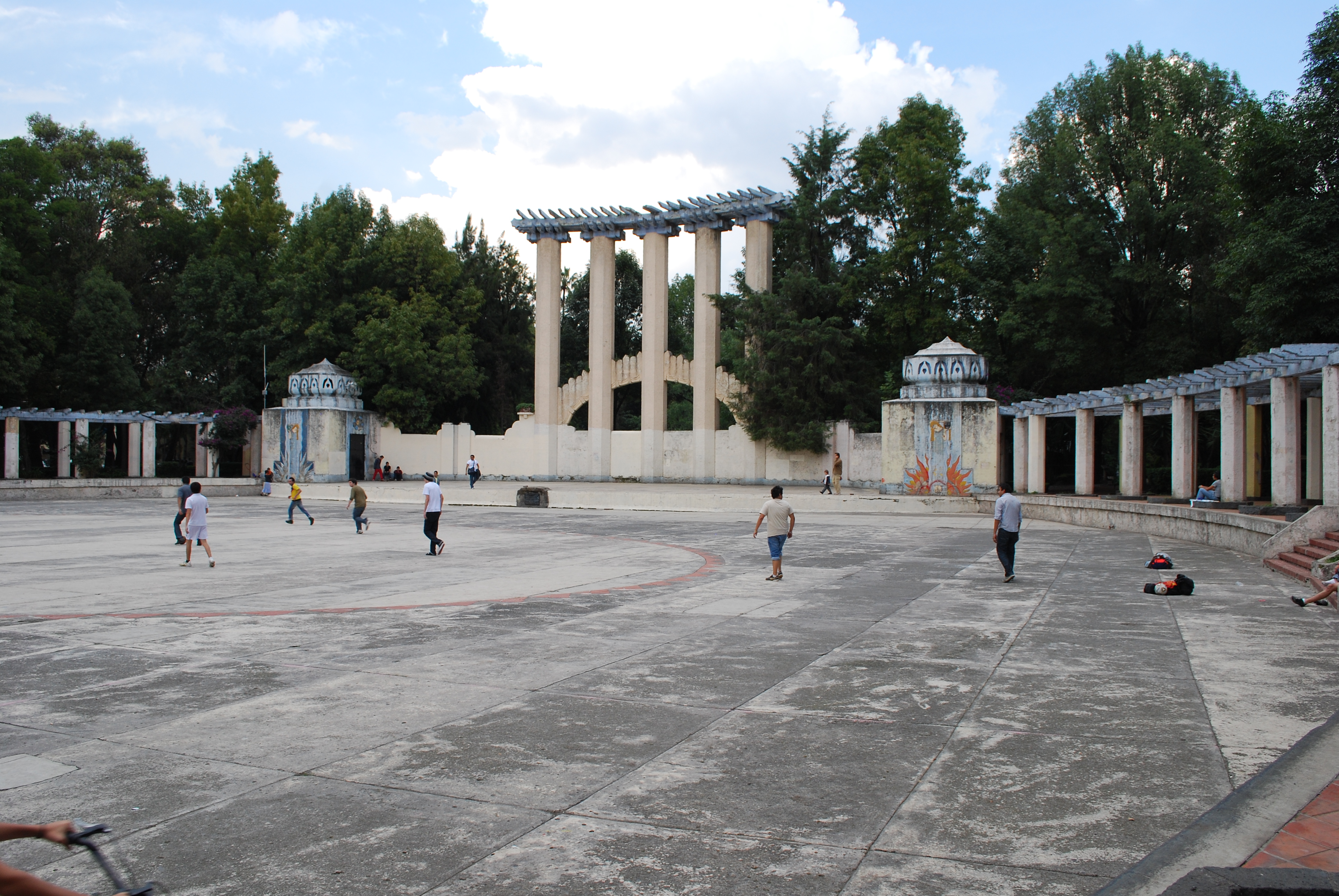 View of the Lindbergh Theater in Parque Mexico in Mexico City